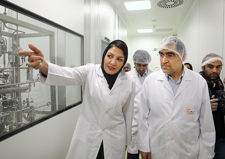 Hassan Ghazizadeh Hashemi